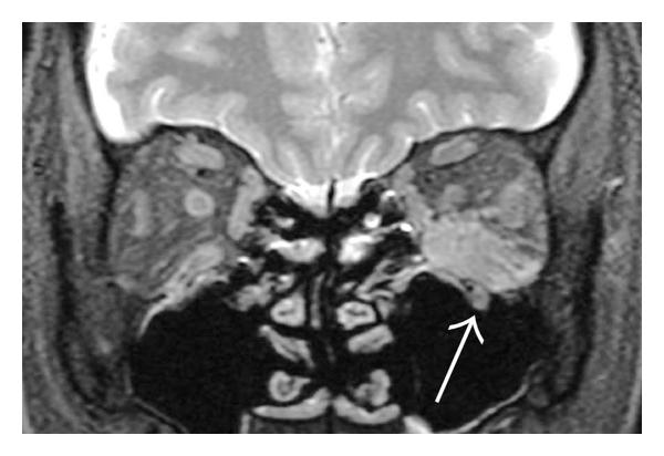 IgG4-related orbital inflammatory lesions: Enlargements in the left inferior rectus muscle and infraorbital nerve (arrow) in a 65-year-old man with a serum IgG4 of 404 mg/dL. (T2-weighted magnetic resonance image)